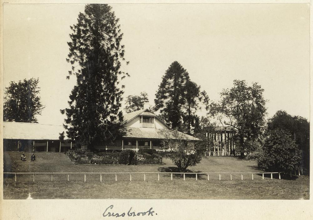 Homestead at Cressbrook Station, 1930 Cressbrook Station was owned by the McConnel family.